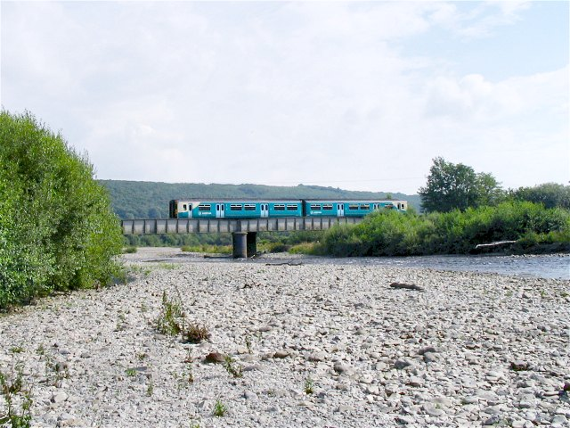 Rail bridge over Towy river at Llandovery The Heart of Wales line crosses the Towy here on its way north into Llandovery. Taken from the pebble shore upstream of the bridge on the town side of the river.